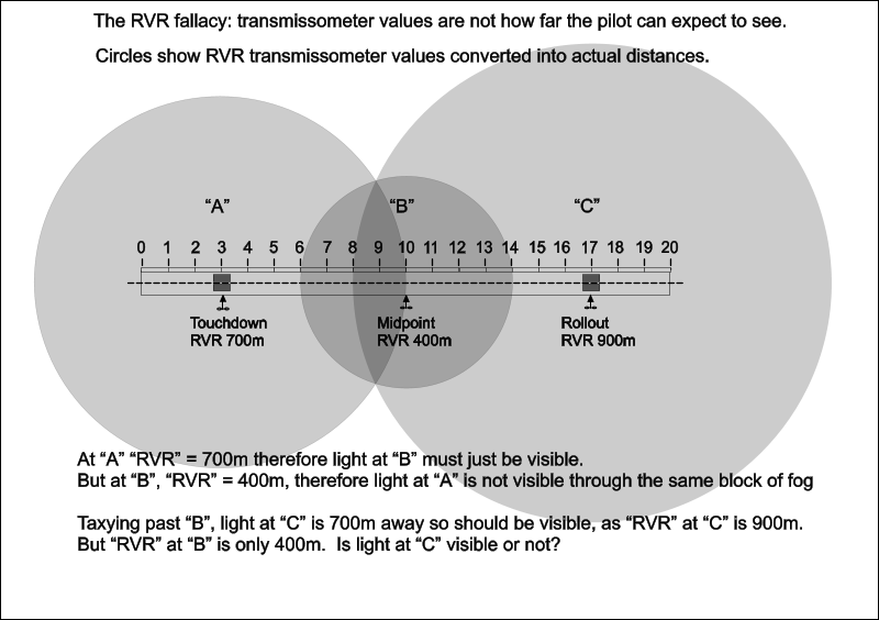 Diagram to illustrate that transmissometers do give true Runway Visual Range in variable conditions